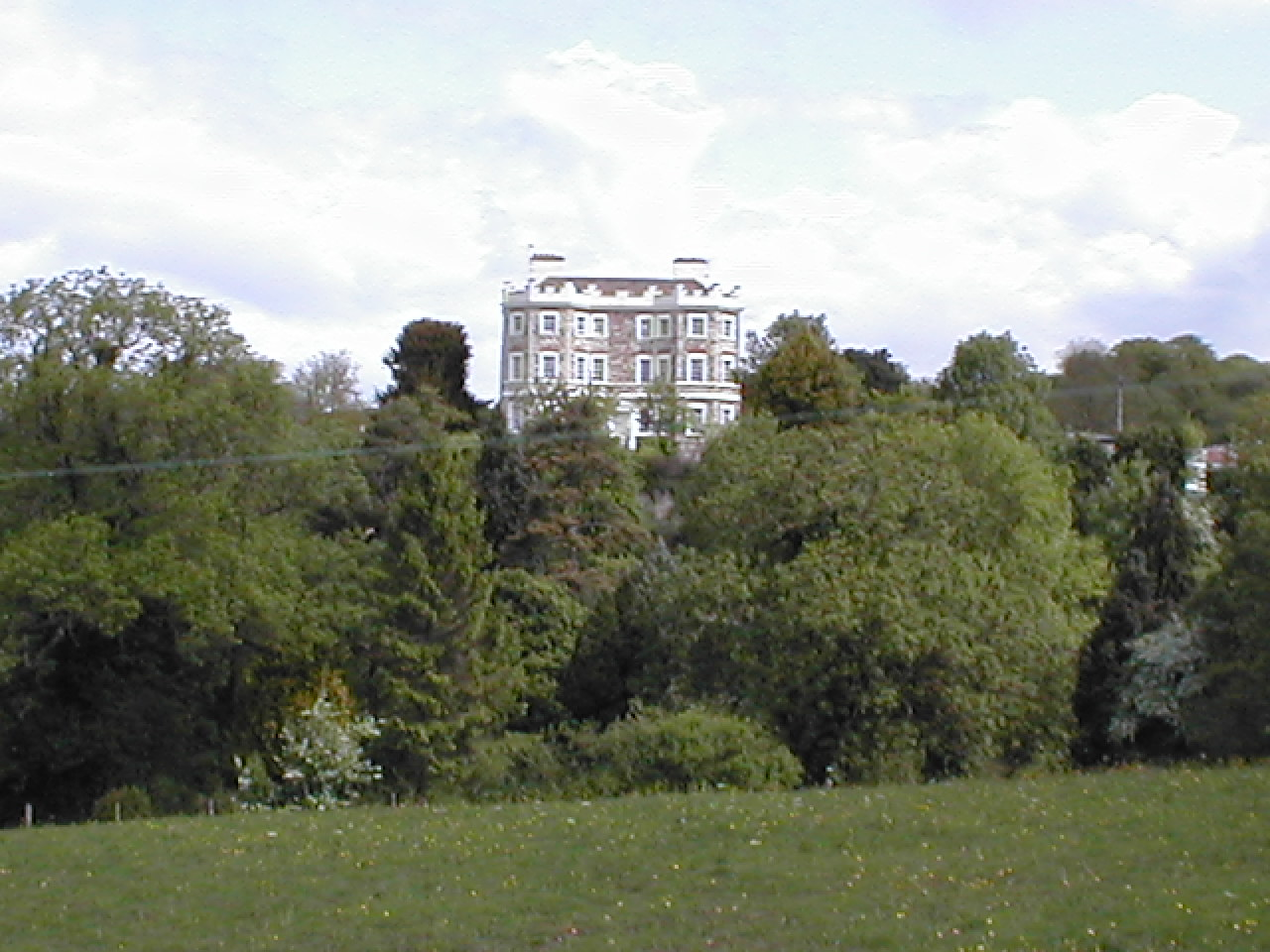 Bury Manor Castle Front